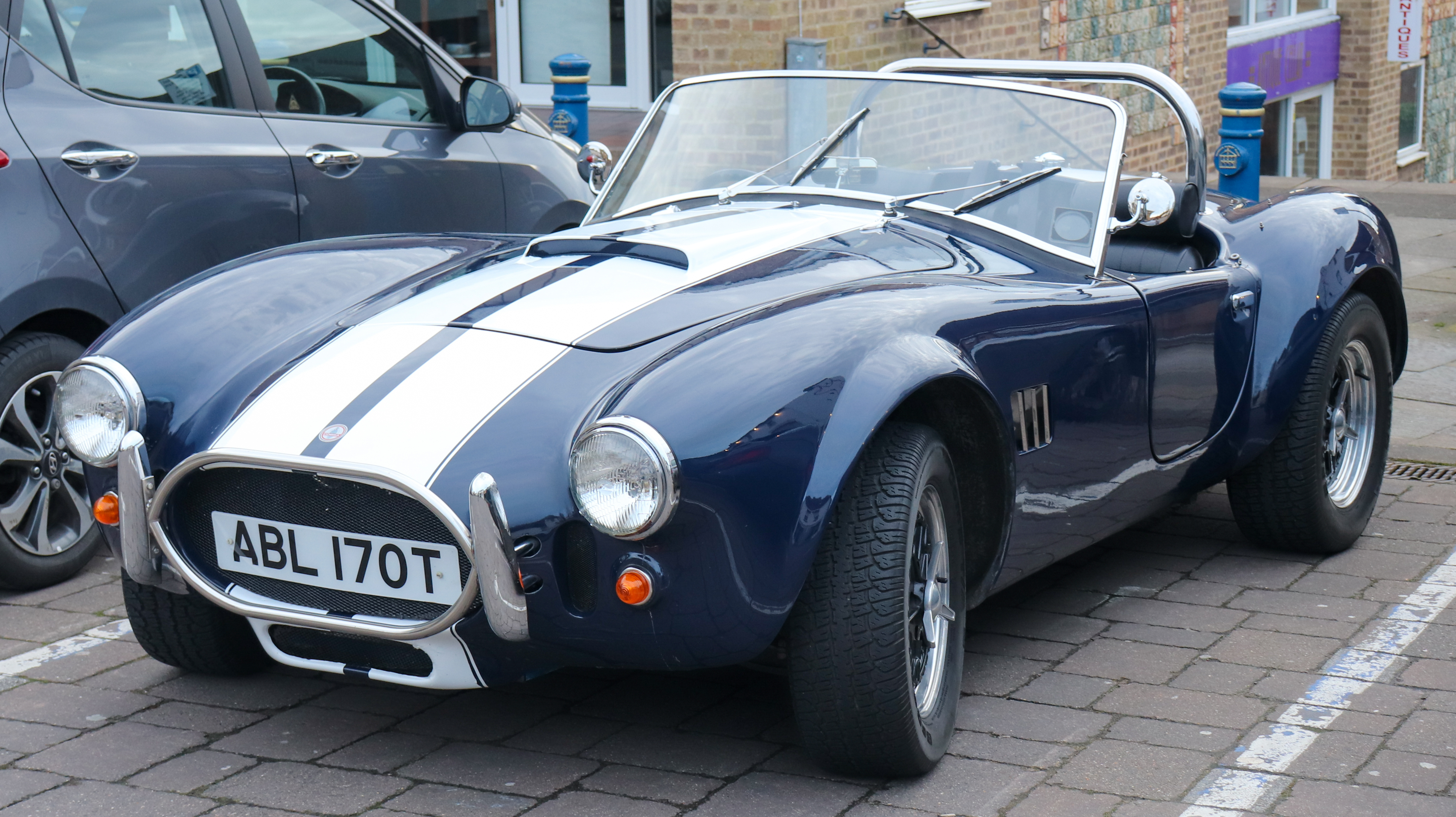 1979 (Donor) Pilgrim Sumo Mk2 2.0 Taken in Warwick